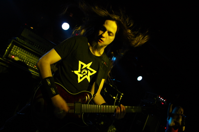 Maurycy Stefanowicz with UnSun band